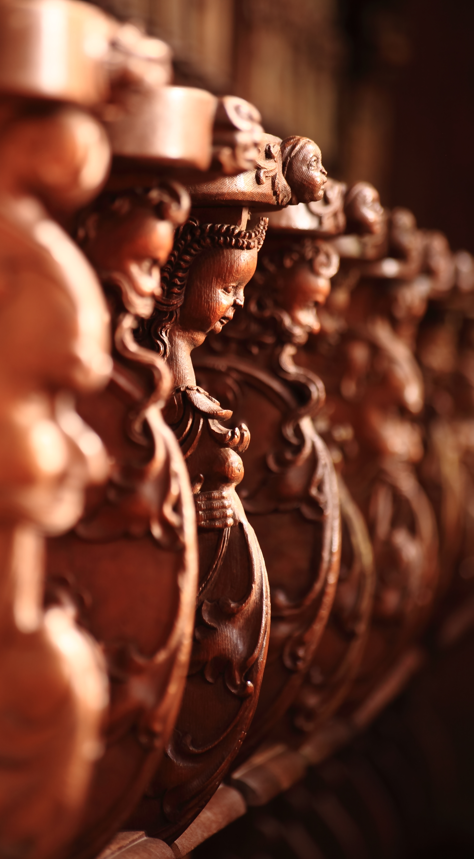 Choir stall in the church of Burgdorf, Switzerland